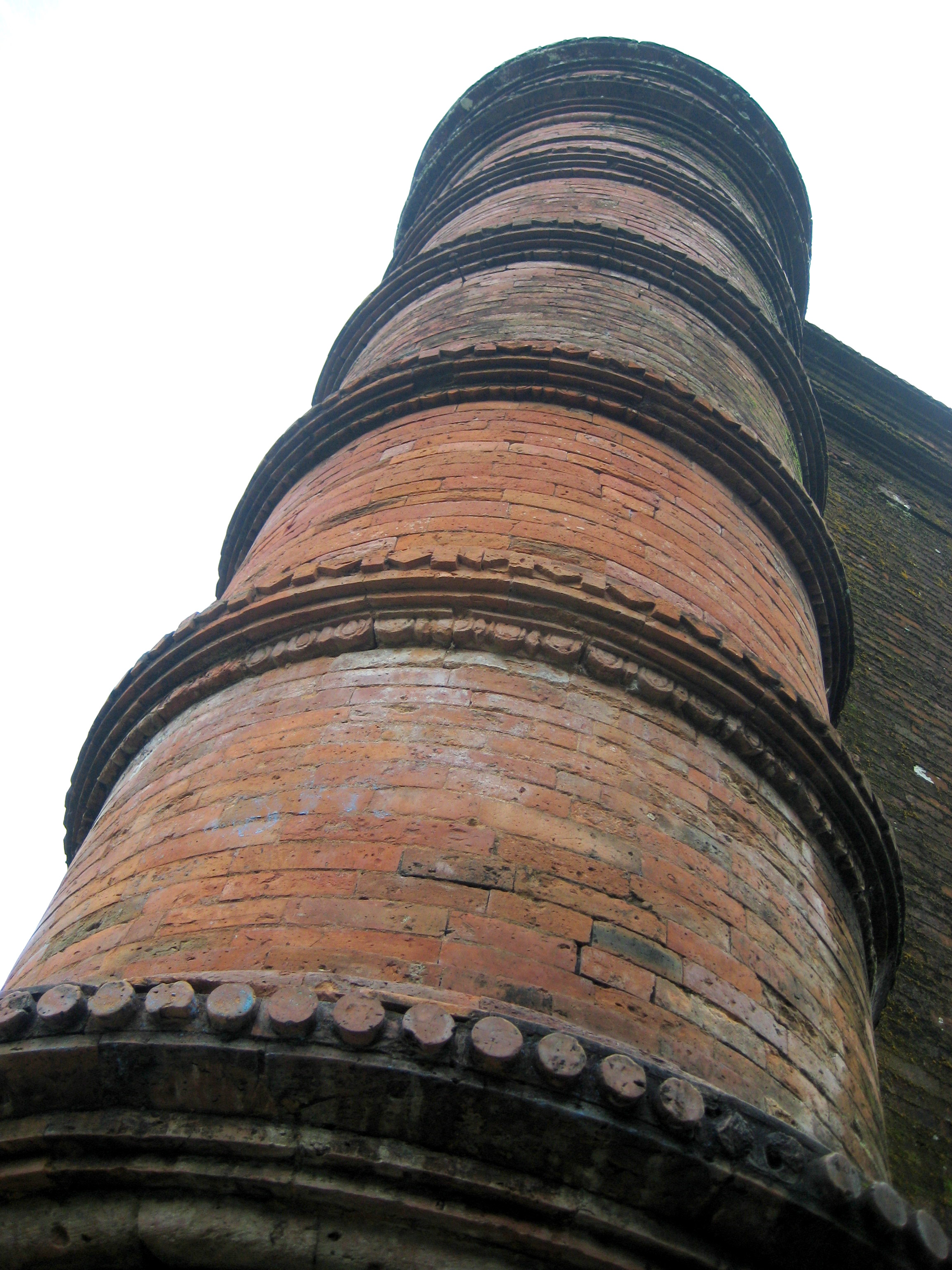 Nine-Dome Mosque is located on the western bank of the Thakurdighi, less than half a km away to the southwest of the tomb-complex of Khan Jahan. The mosque is now a protected monument of the Department of Archaeology, Bangladesh. It is a brick-built square structure measuring about 16.76m externally and 12.19m internally. The 2.44m thick walls on the north, south and east sides are pierced with three arched-openings on each side; the central one, set within a rectangular frame, is larger than the flanking ones.